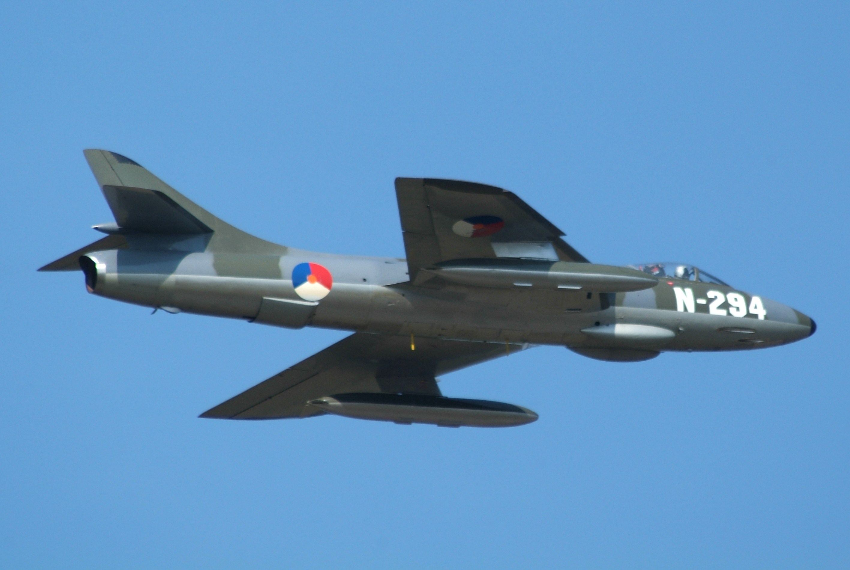 The Dutch operated the Hunter F.6 and had 95 of them, thus this aircraft doesn't represent any particular jet. The best bit was the distinctive howl from the engine.